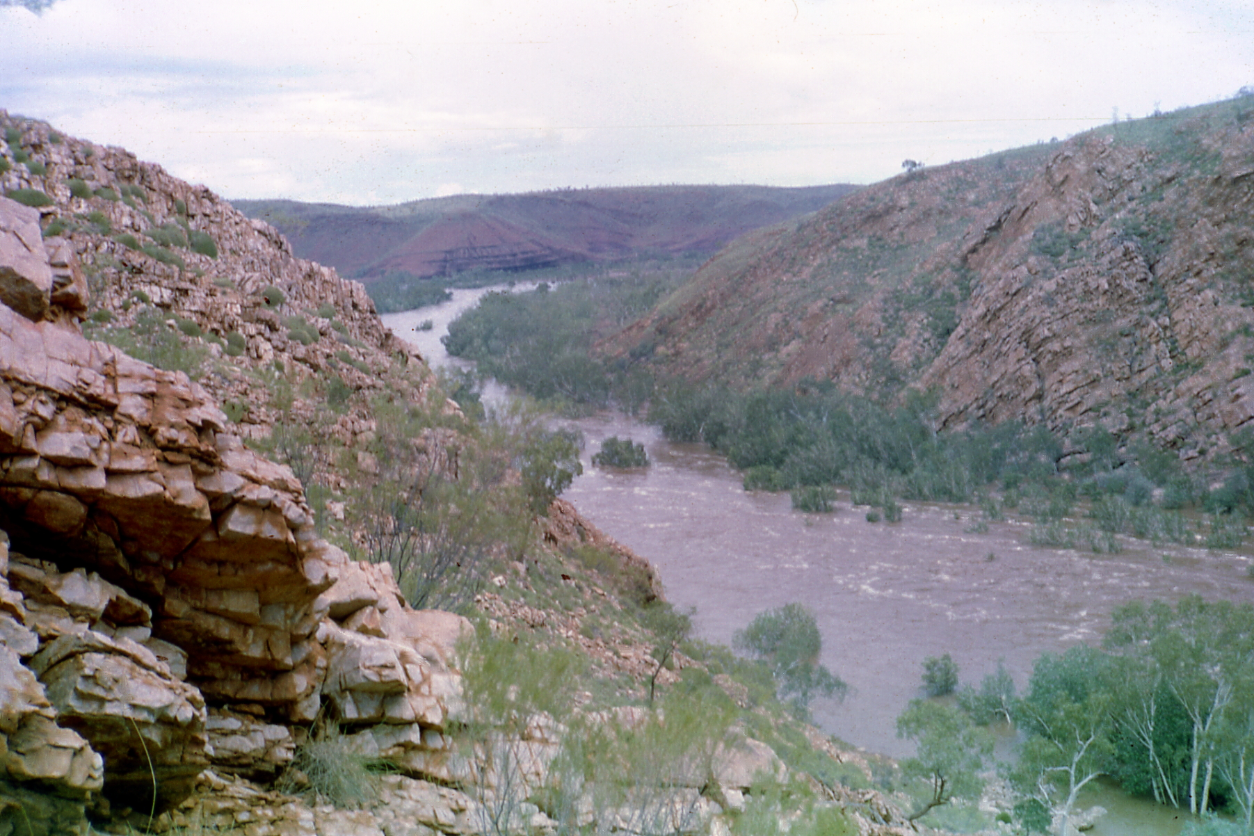 The Margaret River in flood at "Me No Savvy" where it enters the King Leopold Ranges